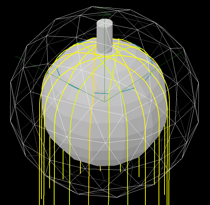 Rope basket layout for hold-down of SNO+ acrylic vessel.